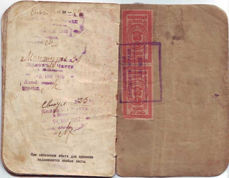 Vladivostok, Russia. Stamps of hospital tax, 1 ruble, early 20th century.